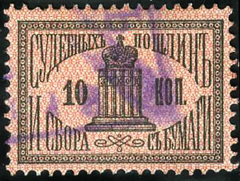 Russia. Judicial stamp